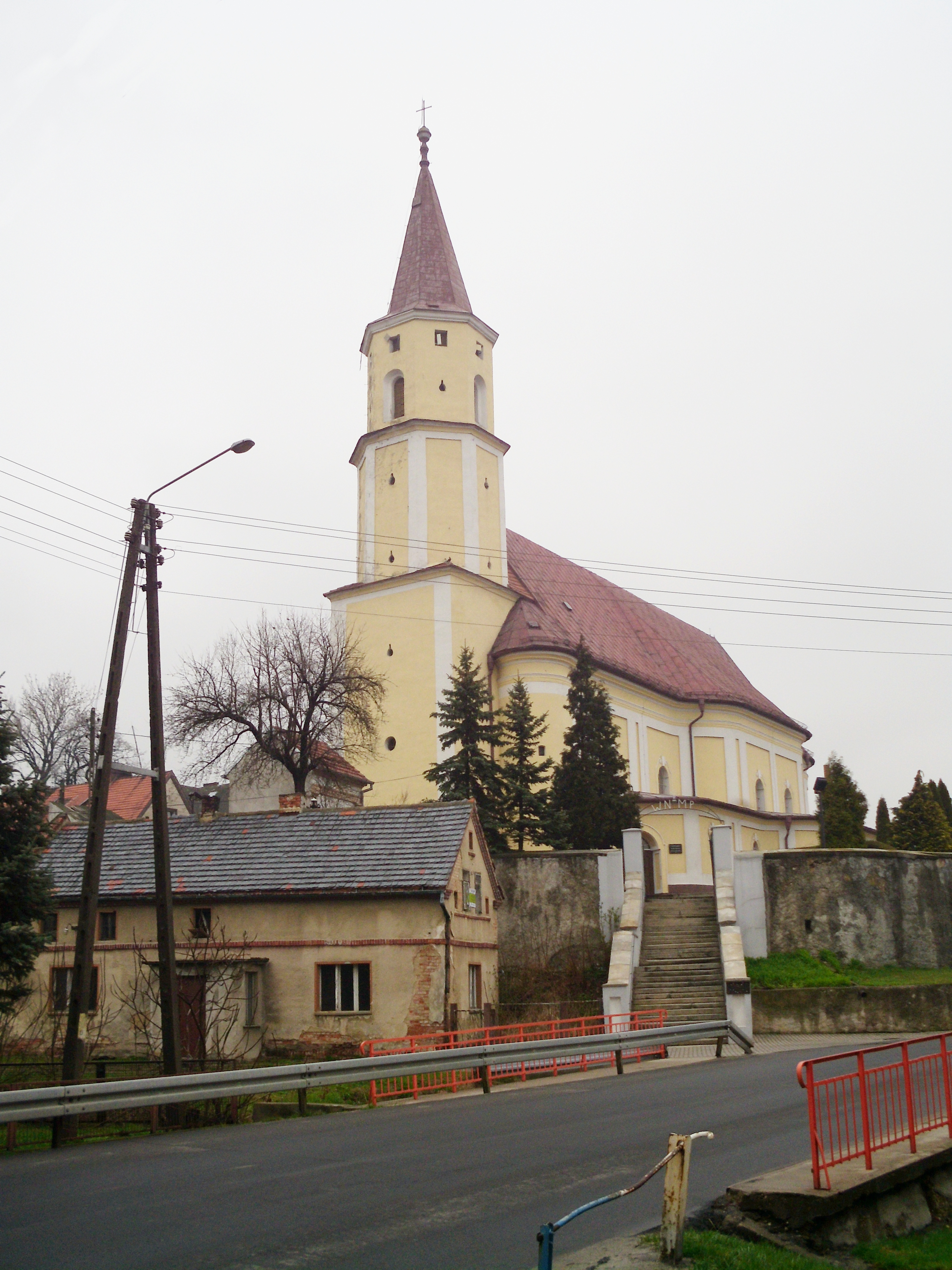 Church in Racławice Śląskie, Poland 10.1958.